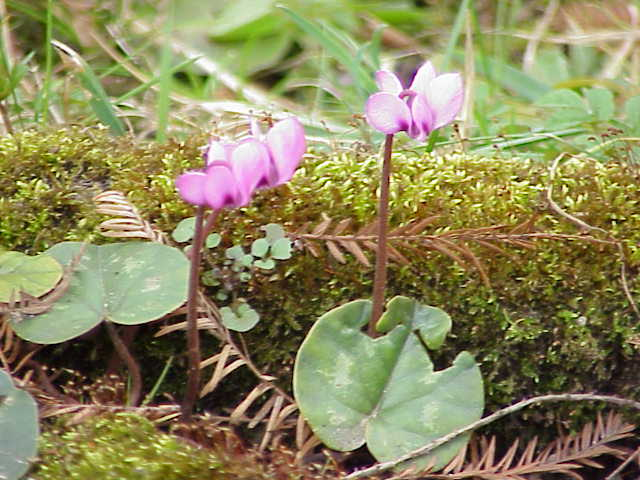 Species: Cyclamen coum Family: Primulaceae Image No. 1